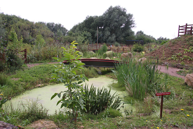 Railworld Wildlife Haven Located next to Peterborough Nene Valley, on the opposite side of the River Nene, the haven is part of the Peterborough Environment Project. Bridge across the water feature is made of reused cast iron girders from a bridge near Sutton in Lincolnshire.